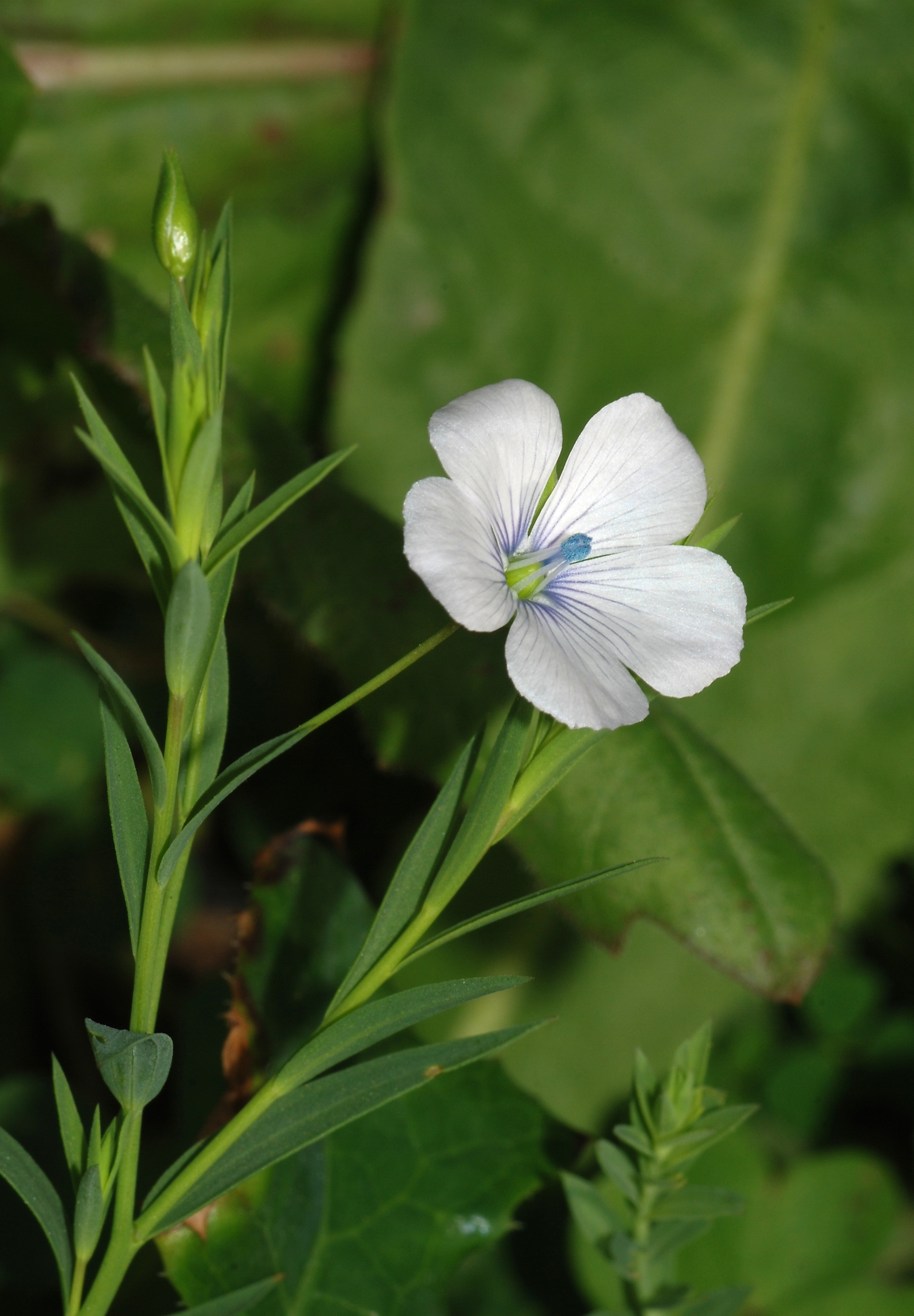 Linum bienne (Pale Flax) flower.